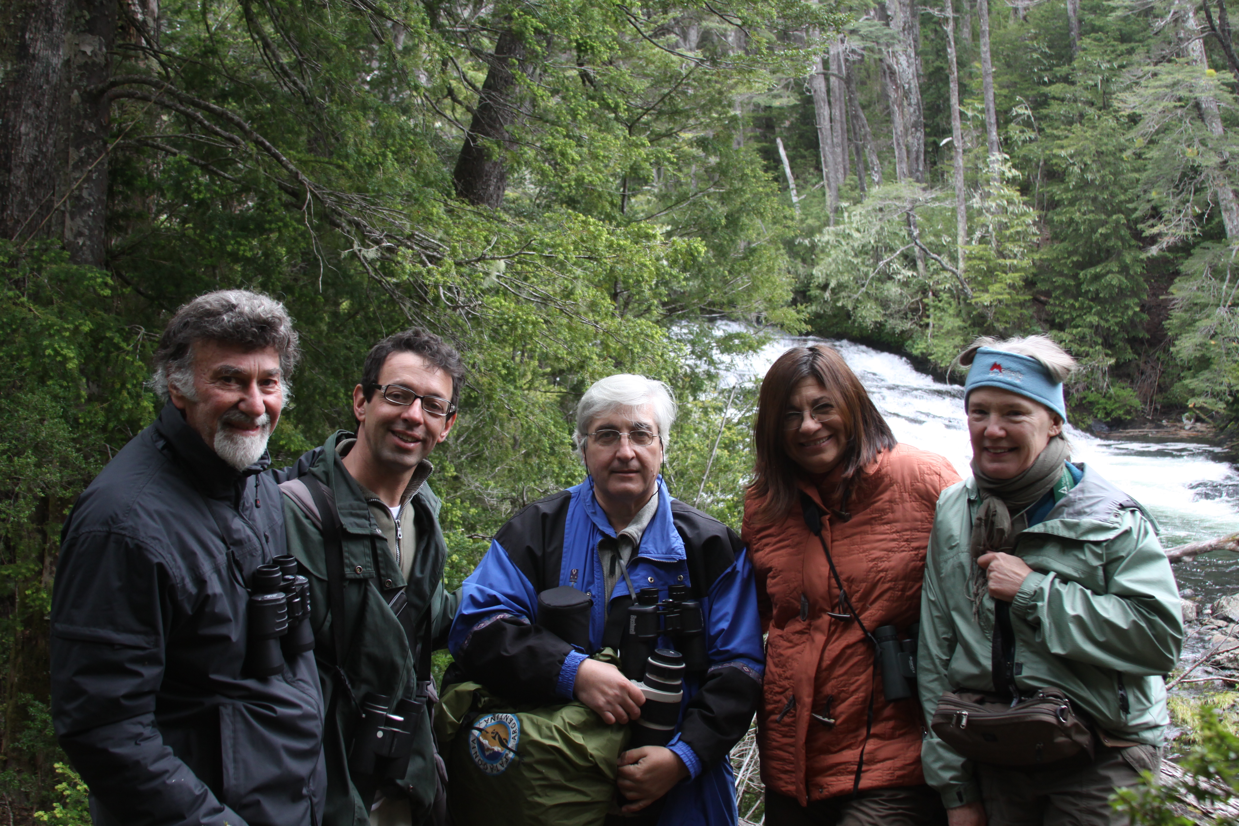 Tito Narosky birding in Patagonia, Nov. 2010, during the South American Bird Fair. With Horacio Matarasso and more people.